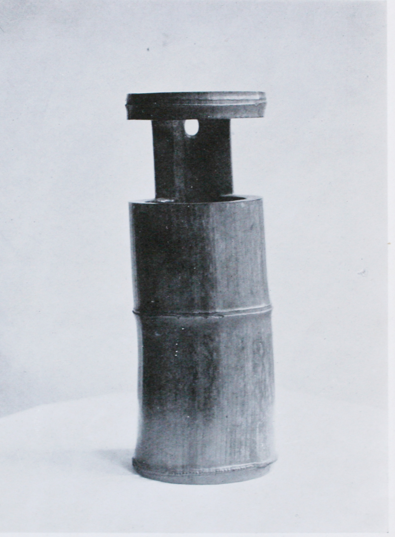 Bamboo Vase by Sen no Rikyū, ONKYOKU, 16th century, Japan in Sekisui Museum, Tu-city, MIE,Japan